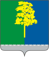 Kondinsky rayon (Khanty-Mansia), coat of arms